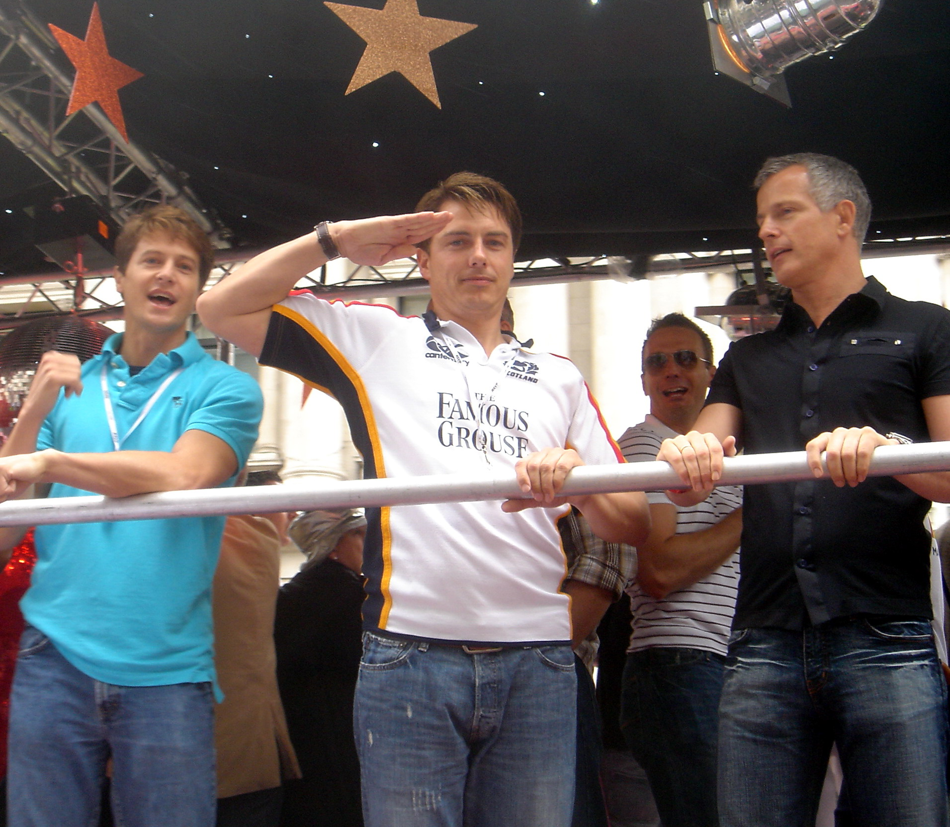 Left to right: Scott Gill, John Barrowman (saluting) and politician Brian Paddick on a float at the 2007 London Gay Pride.